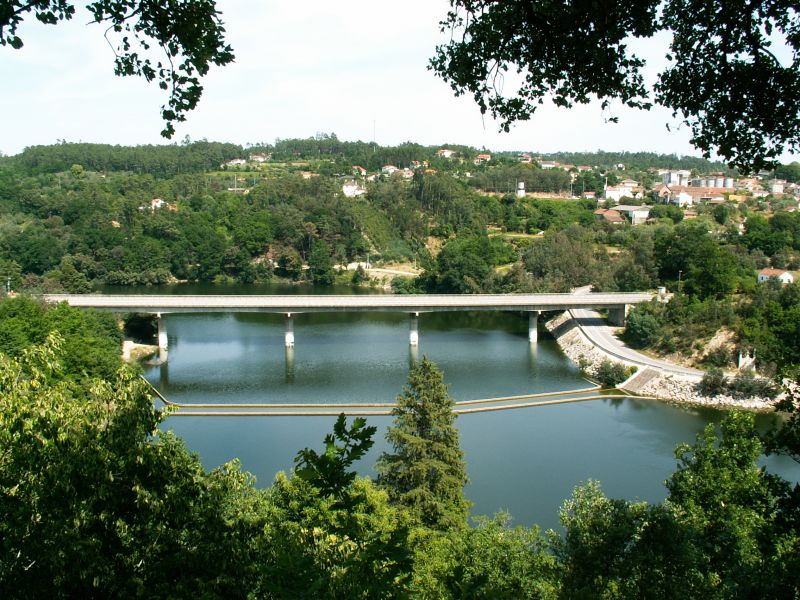 Dão river